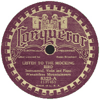 A record of Listen To The Mocking Bird (Conqueror Records), made by the Wenatchee Mountaineers (Elton Britt).